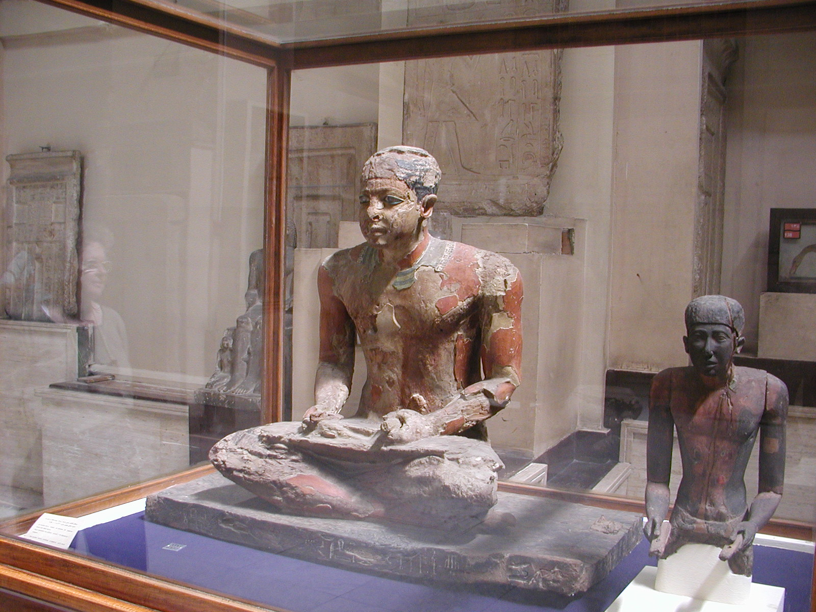 Statue of Mitri as a scribe, 5th dynasty, from the mastaba of Mitri at Saqqara. In Cairo, Egyptian Museum, main floor, room 32, JE 93165.